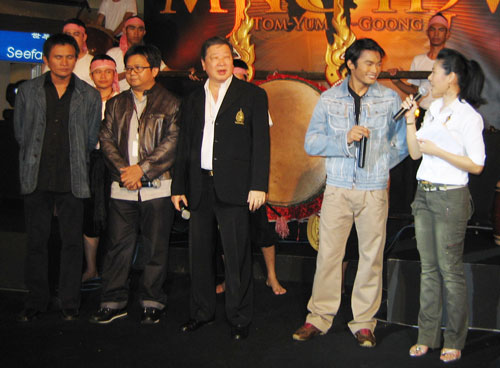 From left, Thai director/stunt choreographer Panna Rittikrai, director-producer Prachya Pinkaew, producer Somsak Techaratanaprasert and actor-martial artist Tony Jaa on stage for the press screening of Tom-Yum-Goong at Major Ratchayothin in Bangkok.